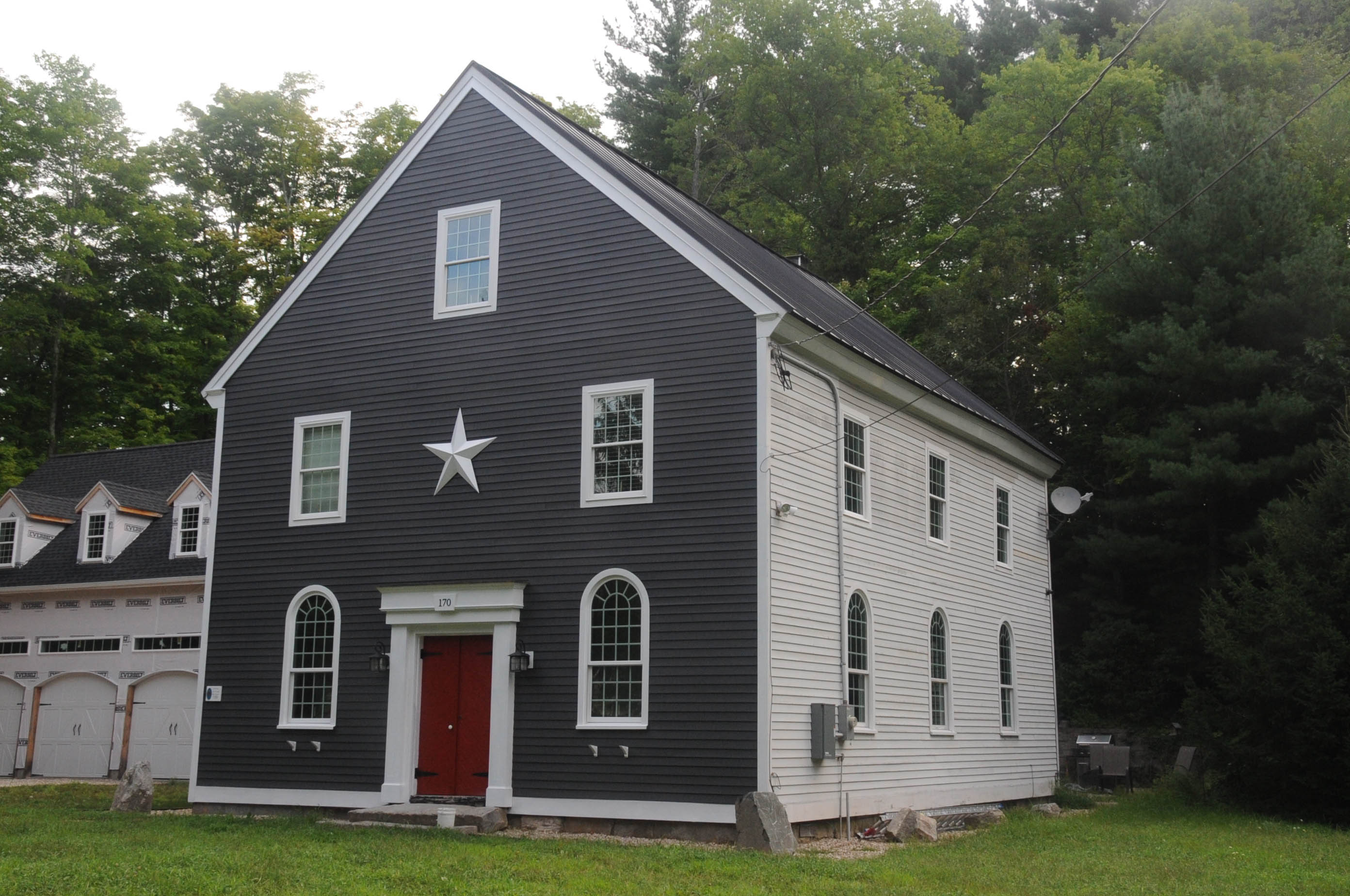 ST. MATTHEW’S CHURCH IS THE FOCAL POINT OF THE DISTRICT AND WAS BUILT BETWEEN 1790 AND 1792. HOWEVER NOW IT IS A RESIDENCE WITH SOME CHANGES IN THE ORIGINAL CHURCH INCLUDING REMOVING THE ARCHED WINDOWS ON THE SECOND STORY